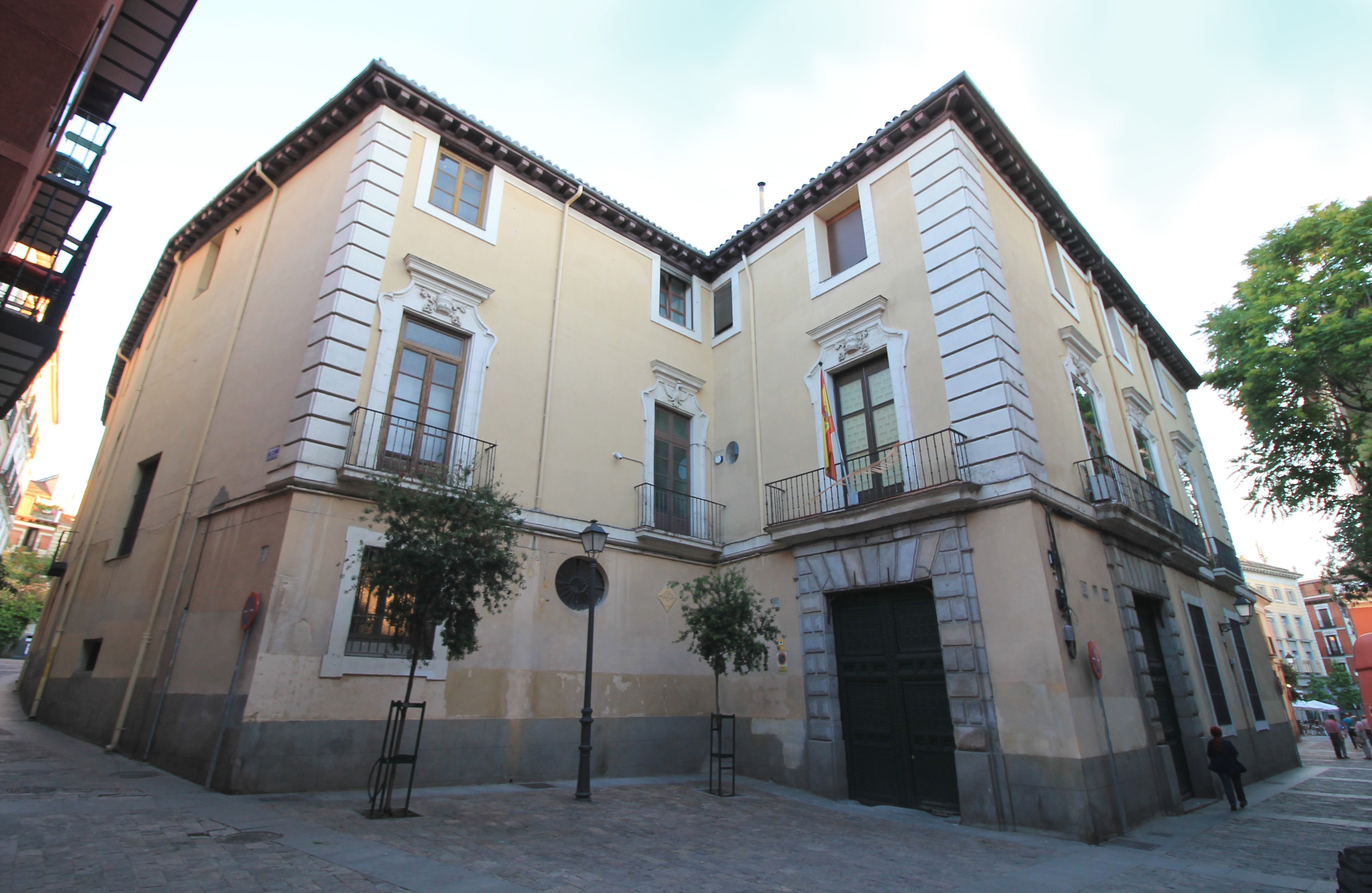 Façade of the former Apostolic Nunciature in Madrid (Spain), at 13-15 Calle del Nuncio (street). Building was designed by Manuel Moradillo and completed in 1735.